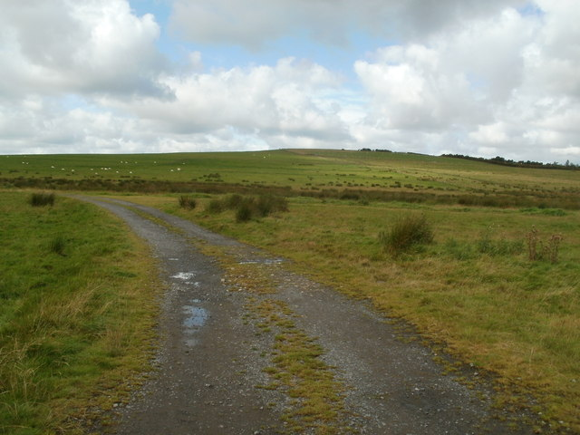 Track through grazing land near Coelbren